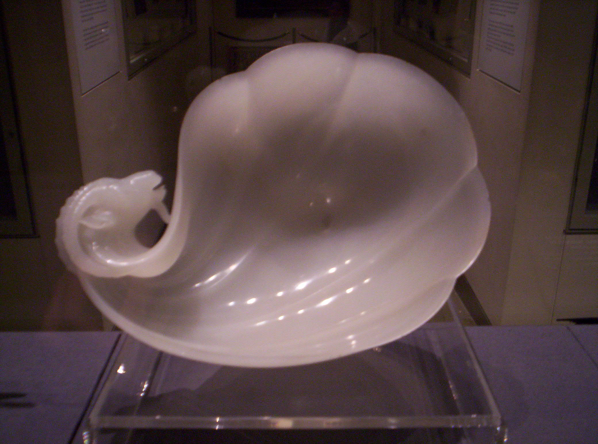 The Shah Jahan's wine cup, entirely made of jade, 1657. Photograph taken at the Victoria and Albert Museum, London.